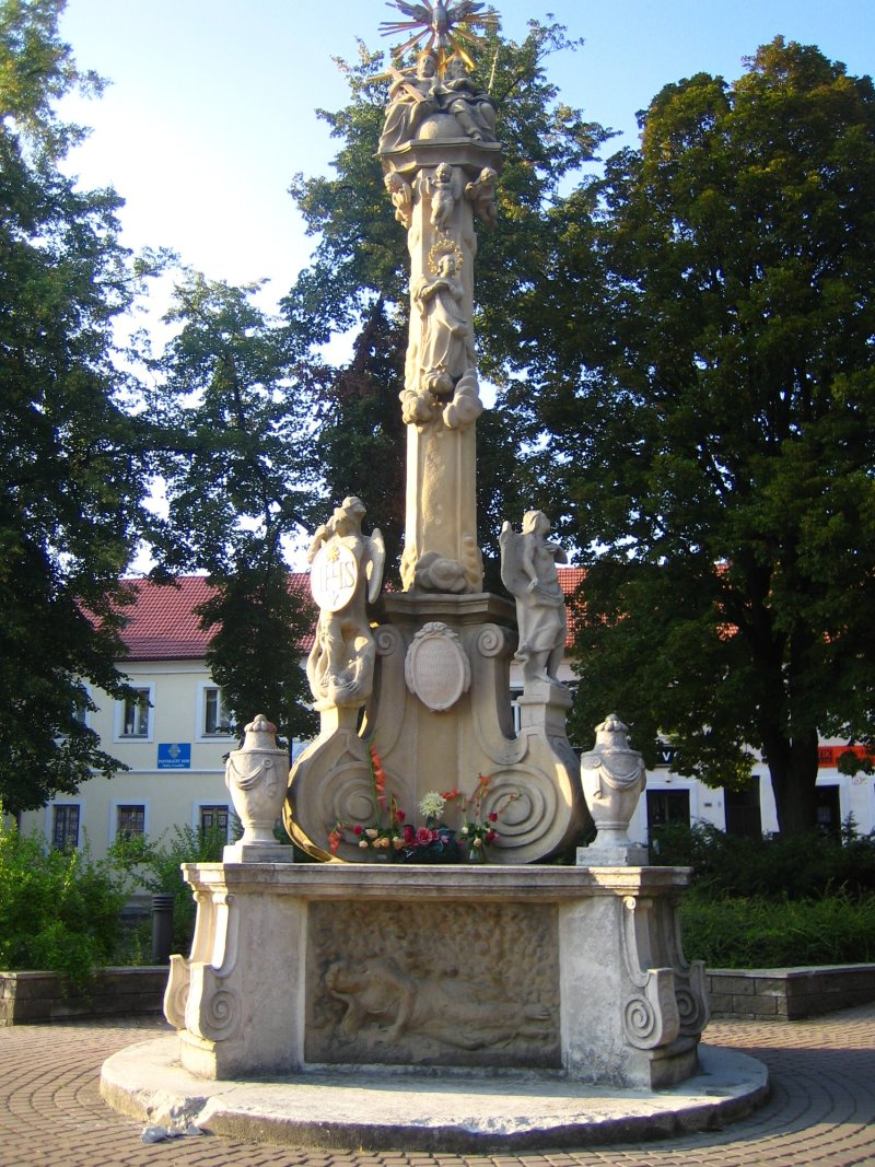 Trinty monument located on market place in Prievidza (SK)